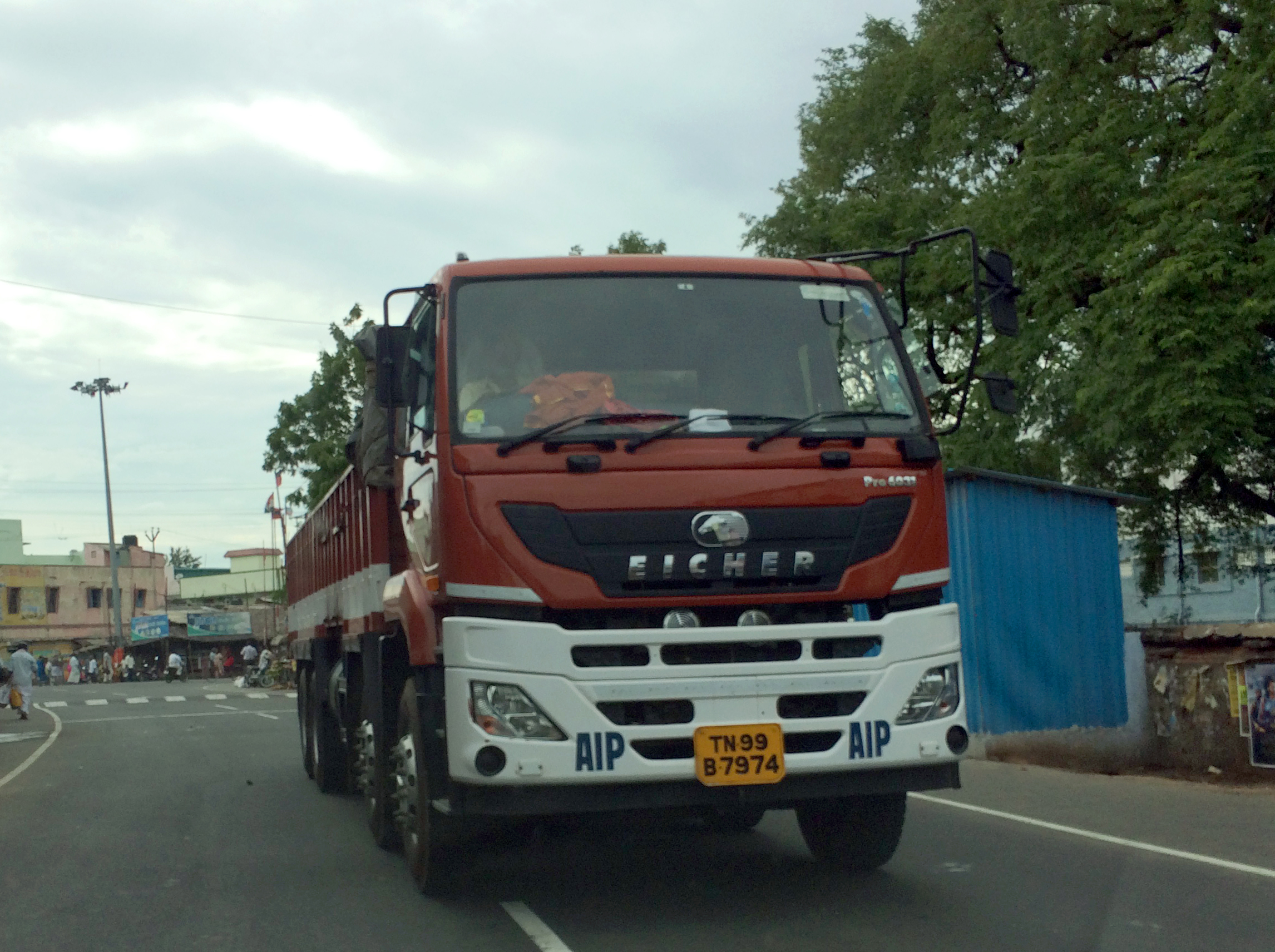 Eicher Multi Axle Lorry near Musiri, Tamil Nadu in JAN 2015